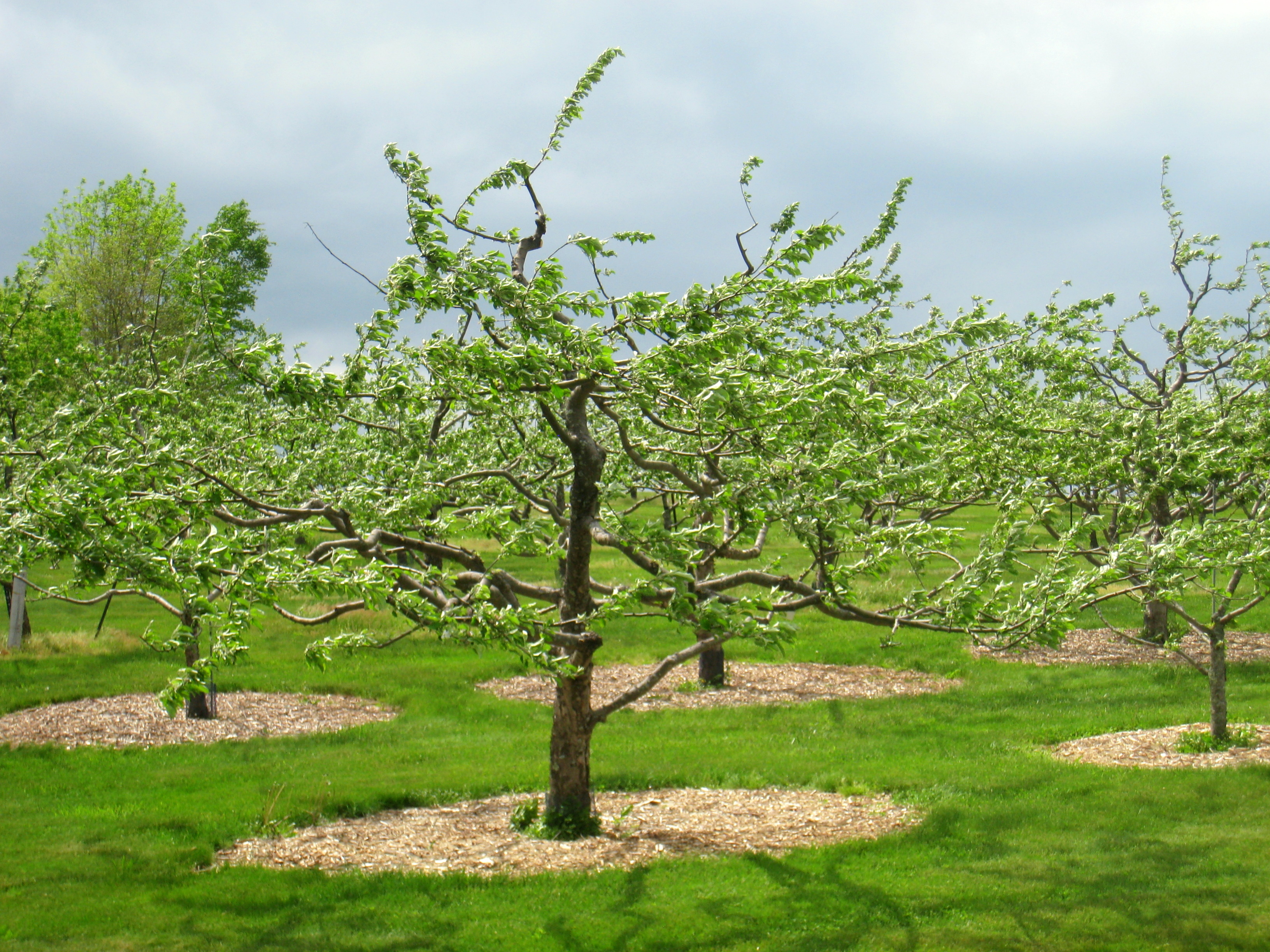 Tower Hill Botanic Garden, Boylston, Massachusetts, USA. Orchard.